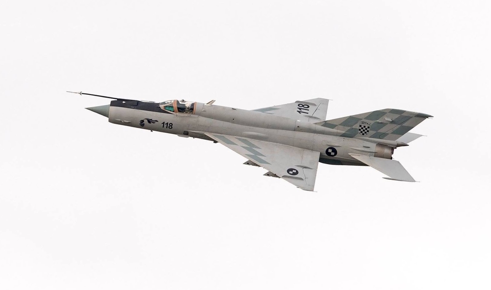 Croatian MiG-21BisD after the 2014 refurbishment